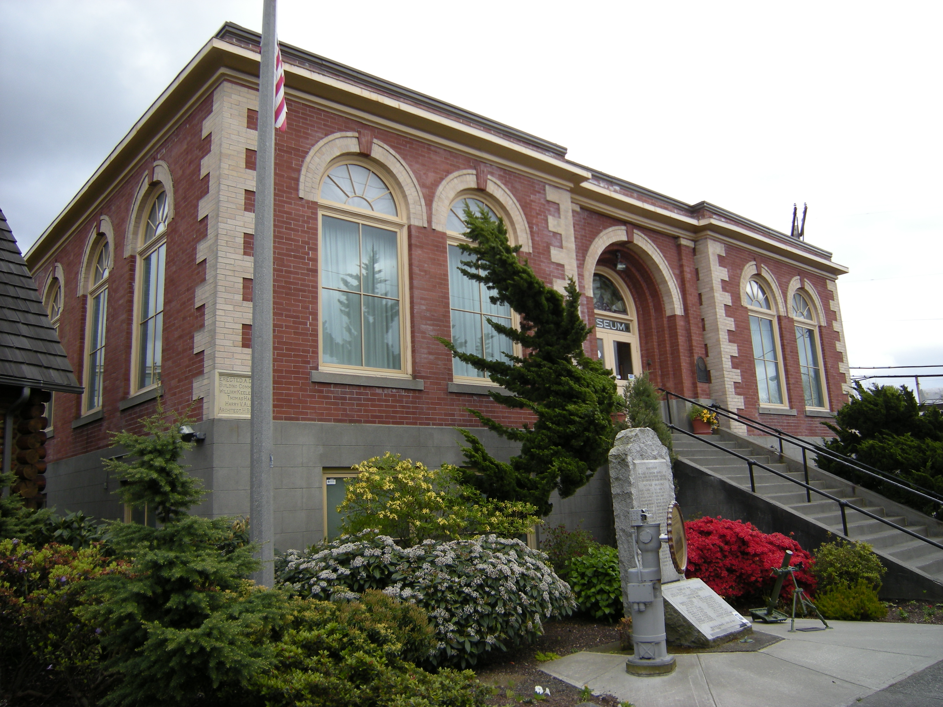 Edmonds Historical Museum, 118 5th Avenue North, Edmonds, Washington. The building was originally a Carnegie Library, built 1910. As of 2008, it is the only building in Edmonds listed on the National Register of Historic Places.